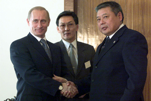 ULAN BATOR. President Putin with Lhamsurengiin Enebish, Speaker of the Great State Hural (Parliament).